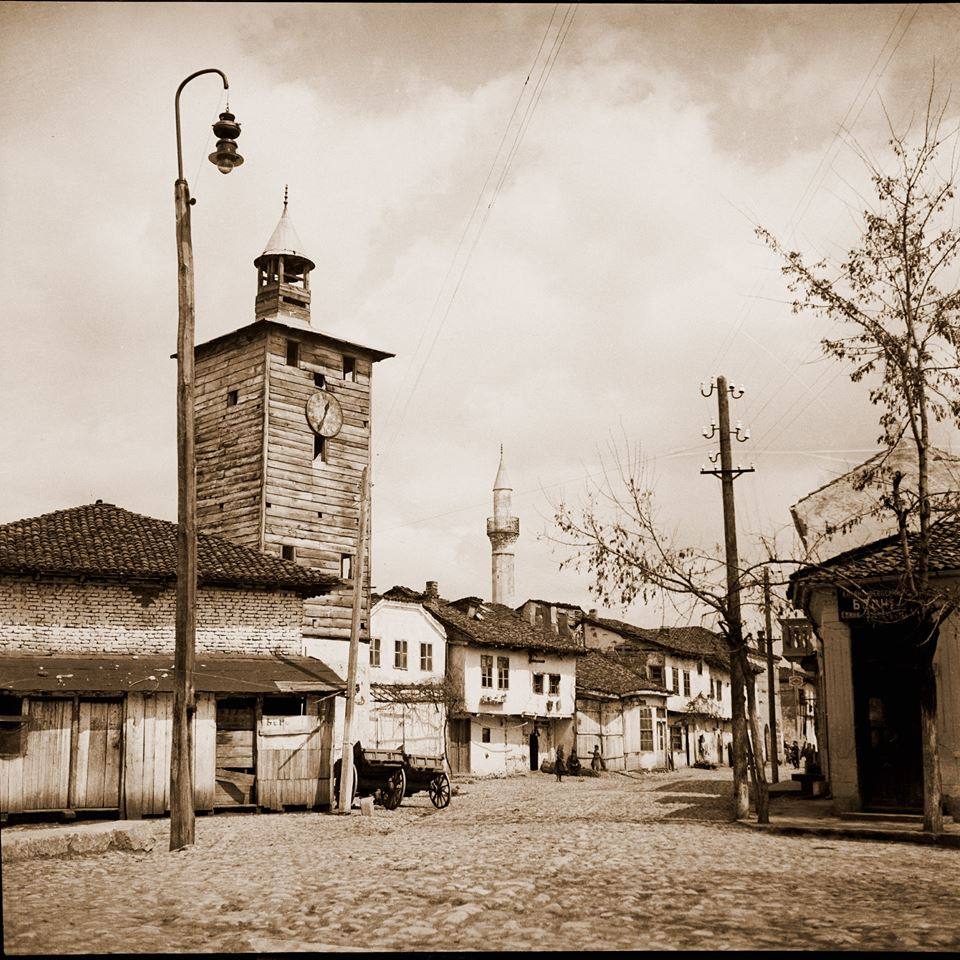 Struga clock tower, Macedonia